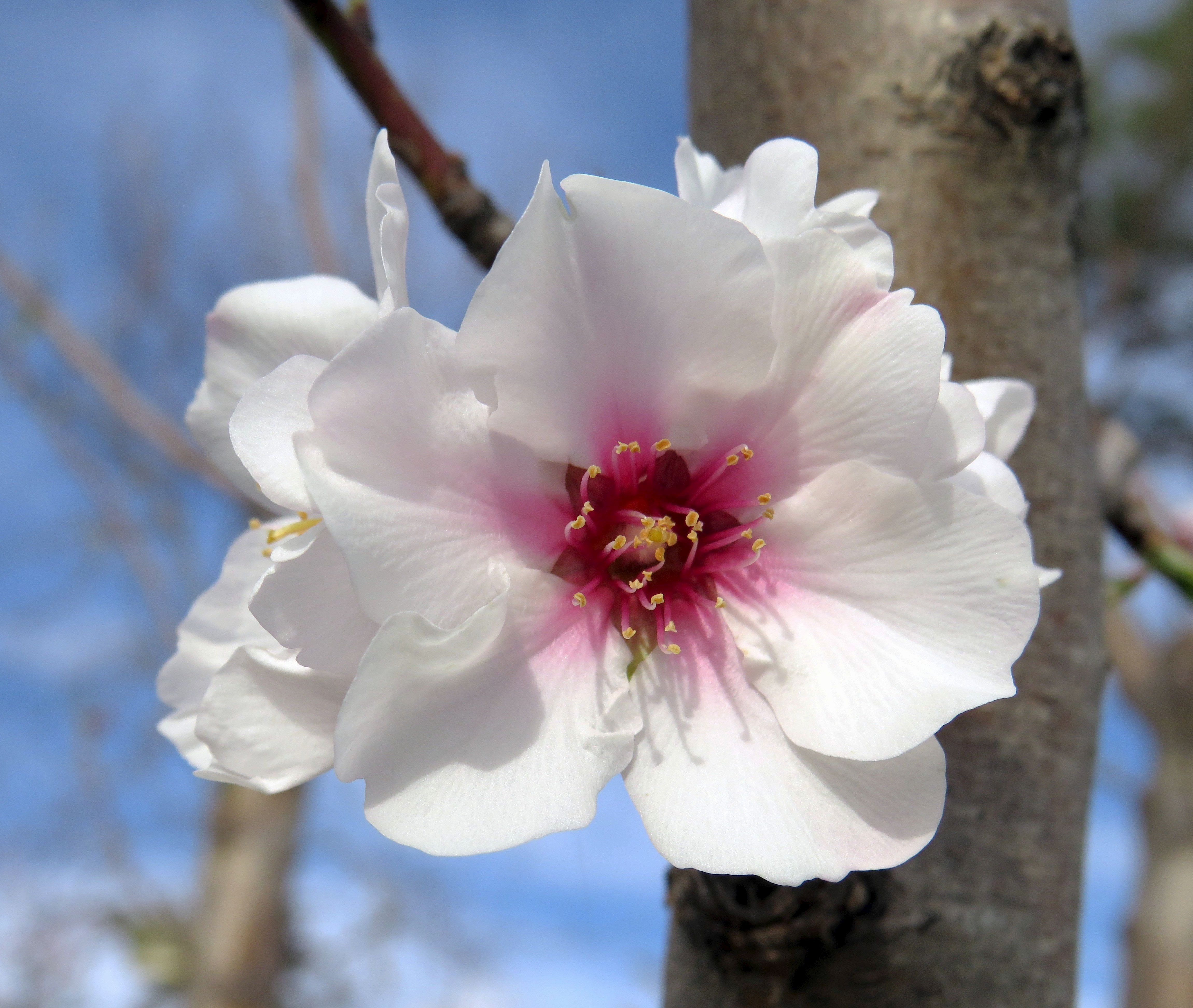 Winter cherry blossom that blooms from November to April and peaks in February